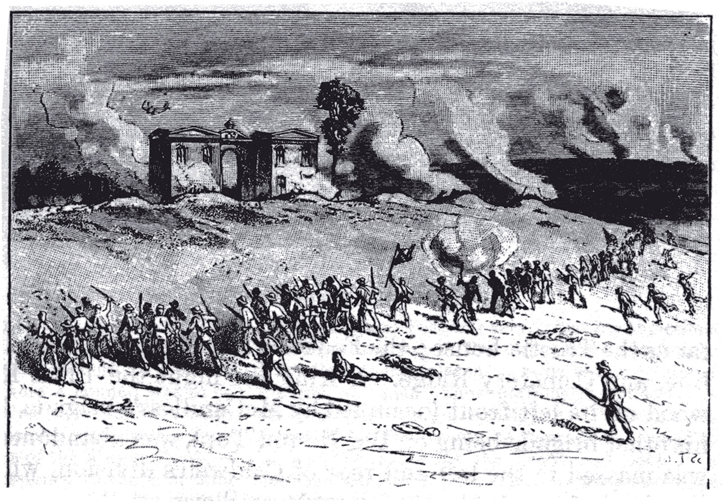 Confederate general Jubal Anderson Early's attack on East Cemetery Hill, July 2, 1863